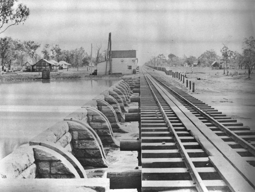 Weir at Dingo, in Central Queensland, ca. 1878. View shows the stone weir wall and the railway line behind it. Looking towards the pump house and town.